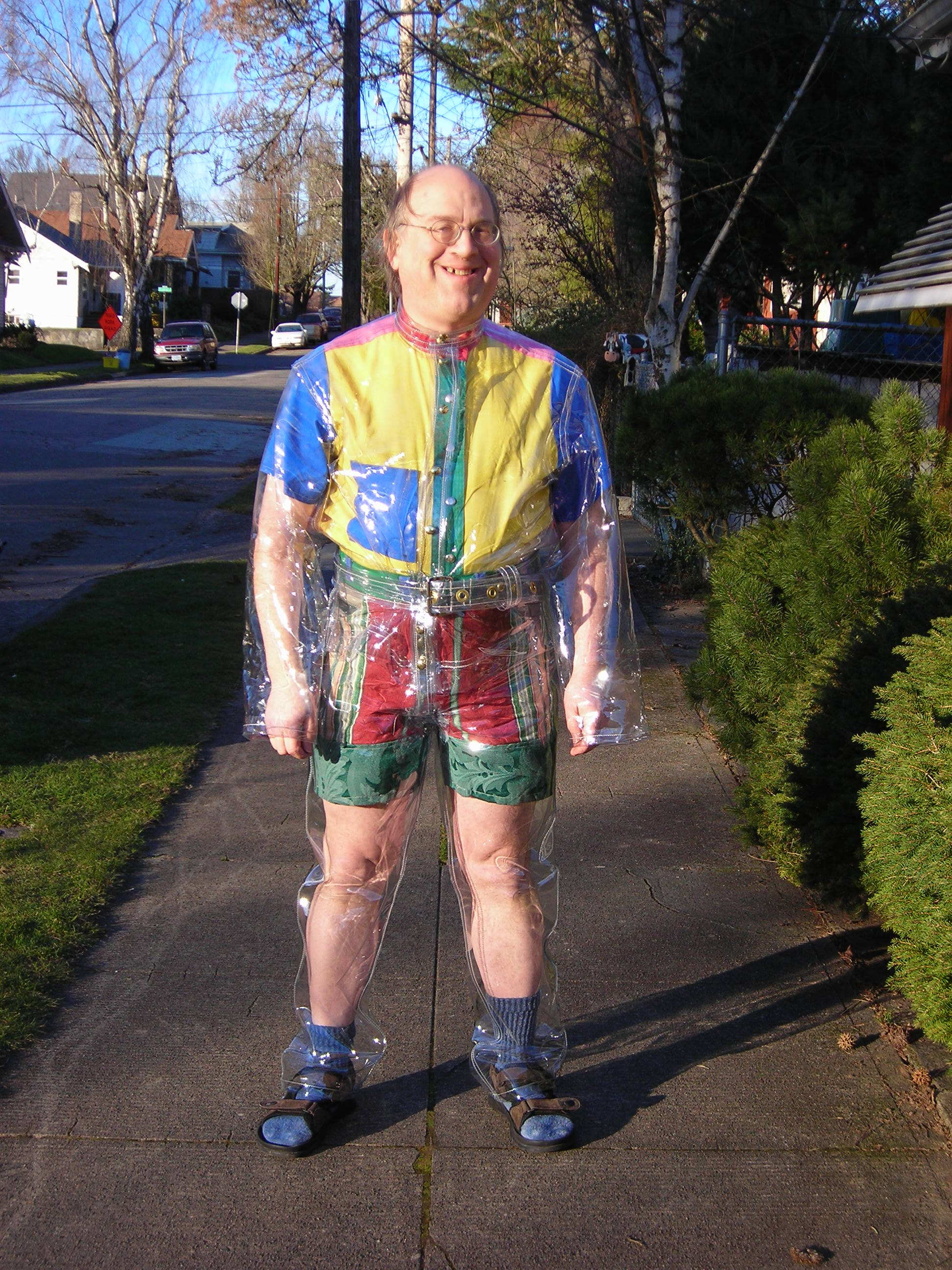 Mark Allyn's photo of Mark Allyn modeling a custom made lighted outfit that he designed and constructed